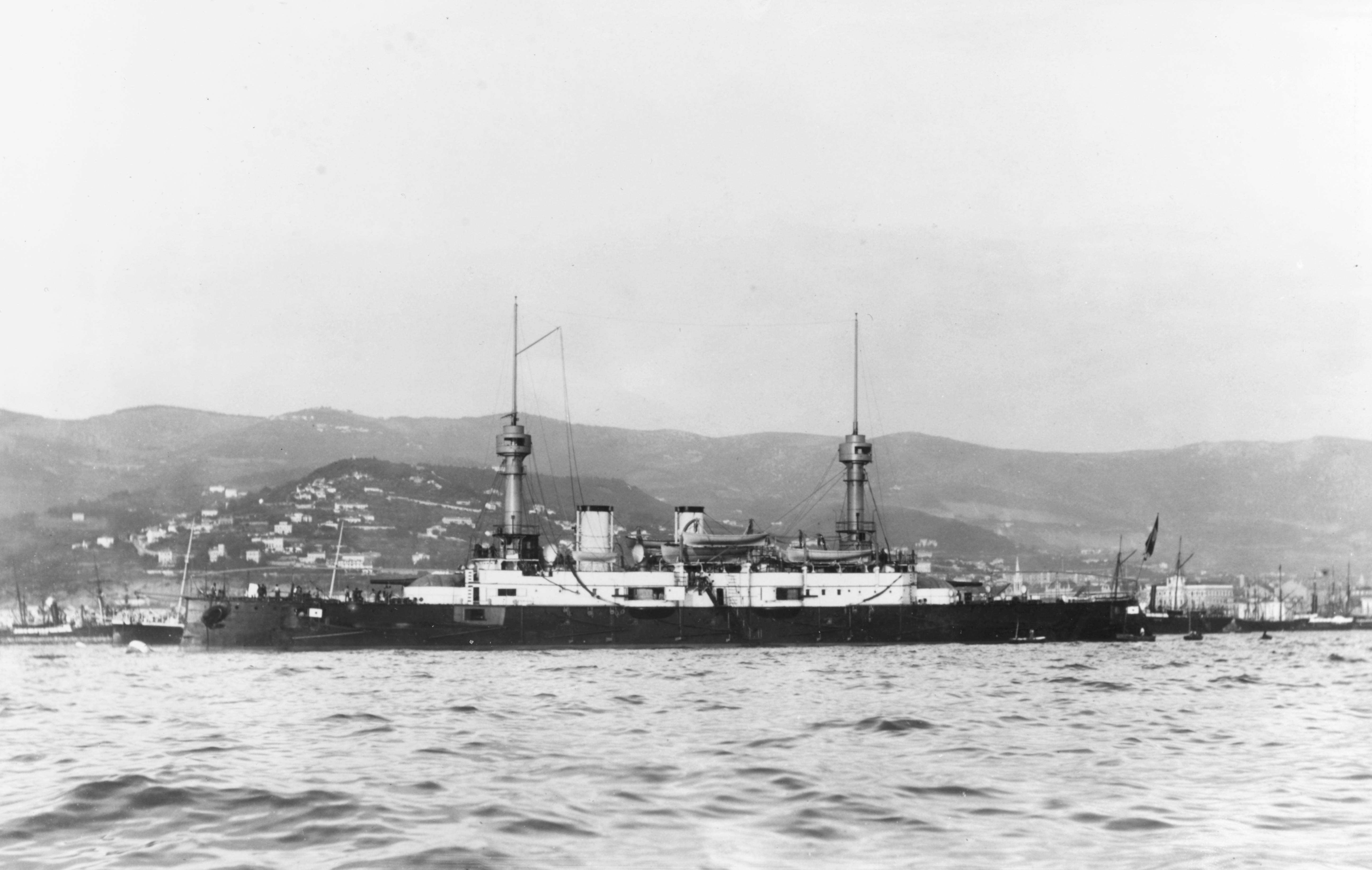 Title: KAISERIN UND KONIGIN MARIA THERESIA (Austrian armored cruiser, 1893-1920) Caption: Photographed by B. Circovich of Trieste, very soon after completion. The ship was placed in commission on 24 March 1895 and made a cruise to Kiel, Germany, to represent Austria at the opening of the Kiel Canal during 17 May to 15 July 1895. This photo may have been made prior to 17 May 1895.